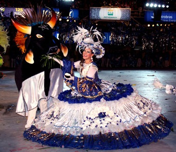 Sinhazinha Thainá Valente dando de comer para o Boi Caprichoso